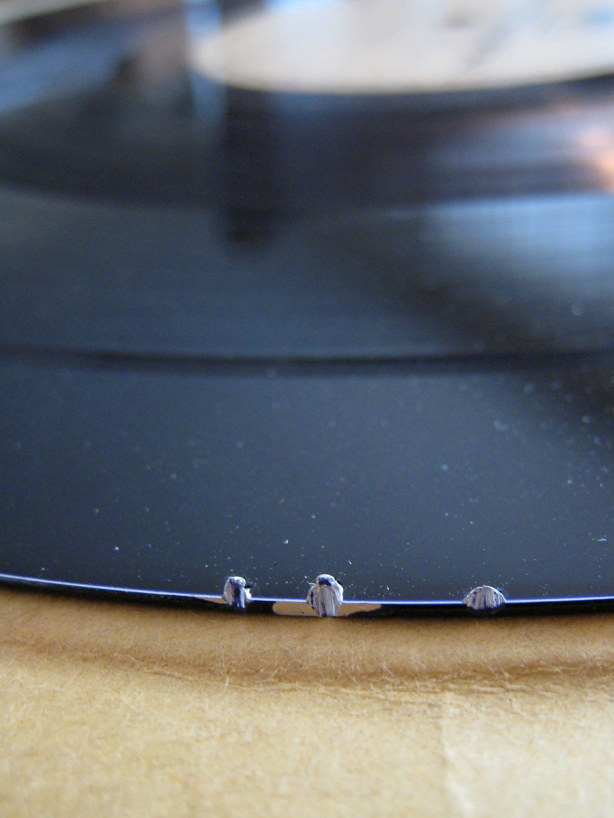 The damaged edge of a test acetate disc; the damage shows that the disc is made of aluminum rather than the standard vinyl of a record sold at retail.